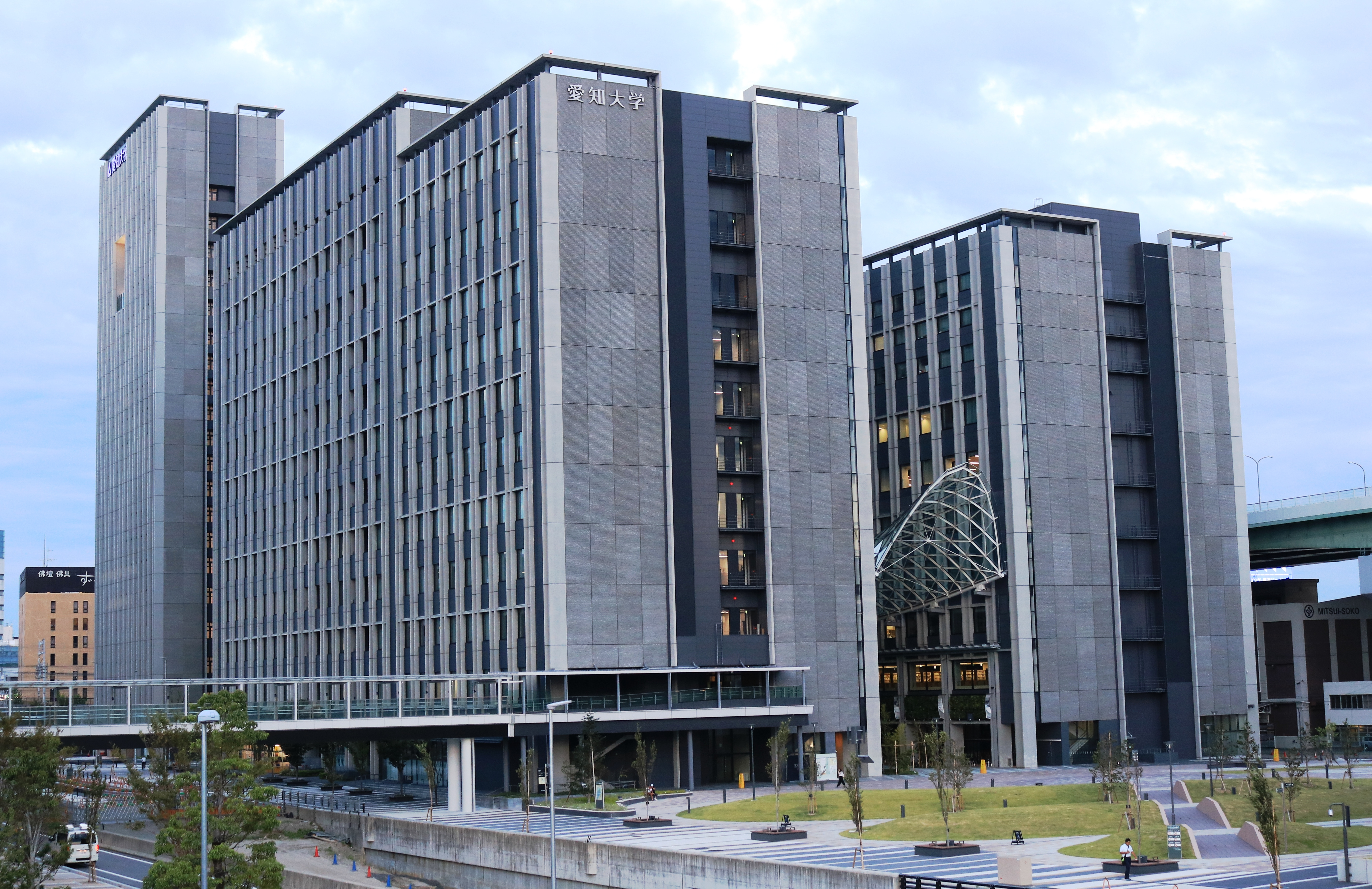 Nagoya Campus of Aichi University seen from Sasashima-raibu Station in Sasashima-raibu24, Nakakura-ku, Nagoya, Aichi prefecture, Japan.